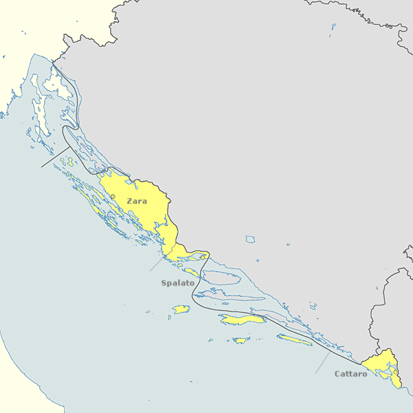 Locator map for the Governate of Dalmatia (141-43